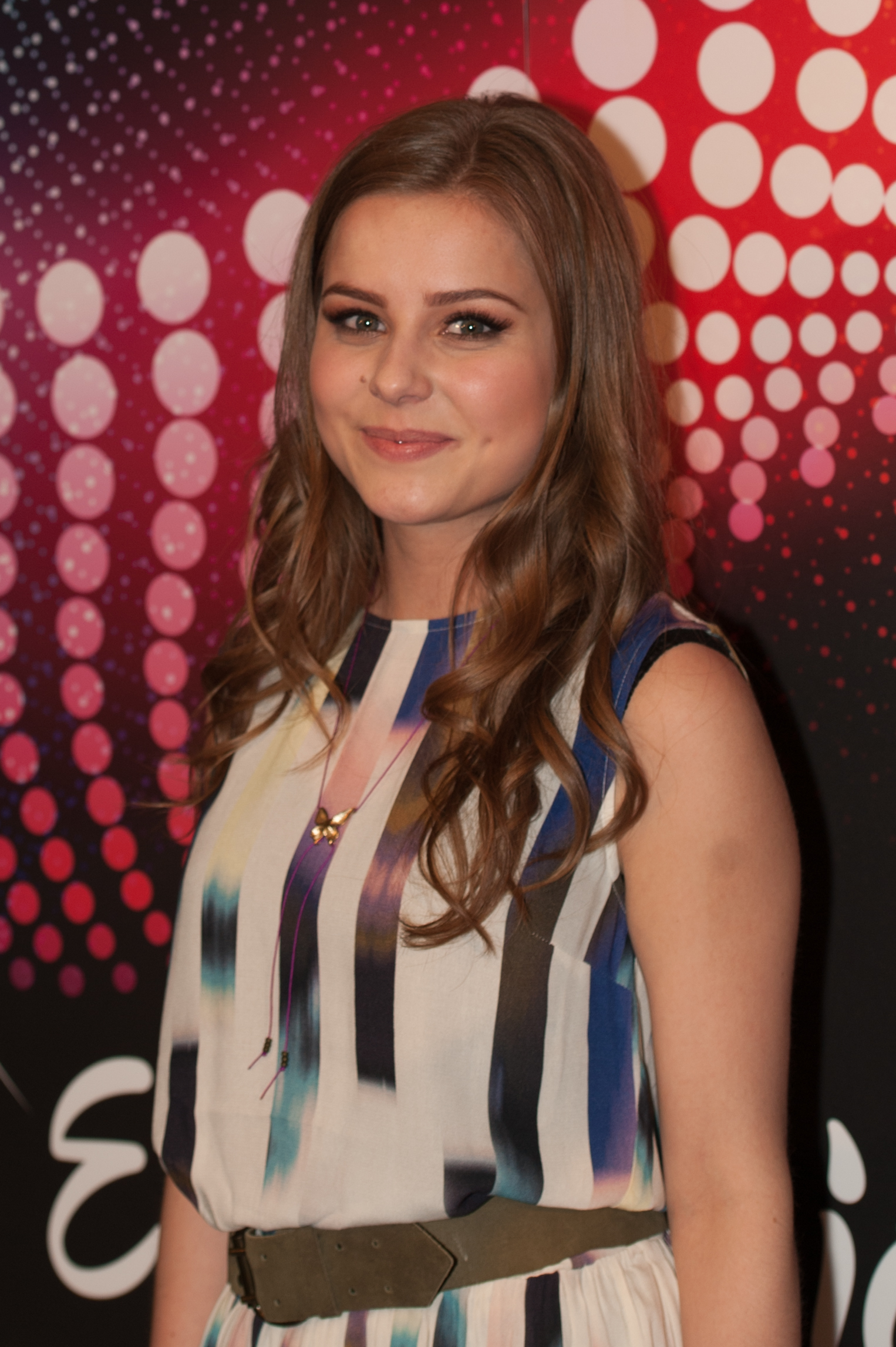 Eurovision Song Contest Vienna 2015: Maria Olafs